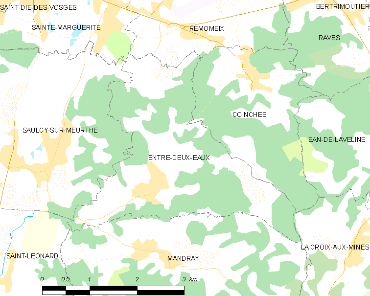 Map of French municipality Entre-deux-Eaux